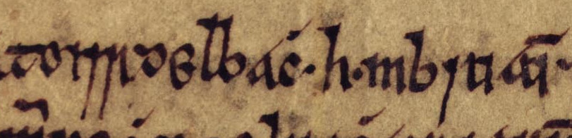 An excerpt from folio 18v of Oxford Bodleian Library MS Rawlinson B 488 (the Annals of Tigernach): "Toirrdelbach h-Úa m-Briain". The excerpt concerns Toirdelbach Ua Briain, King of Munster (died 1086).